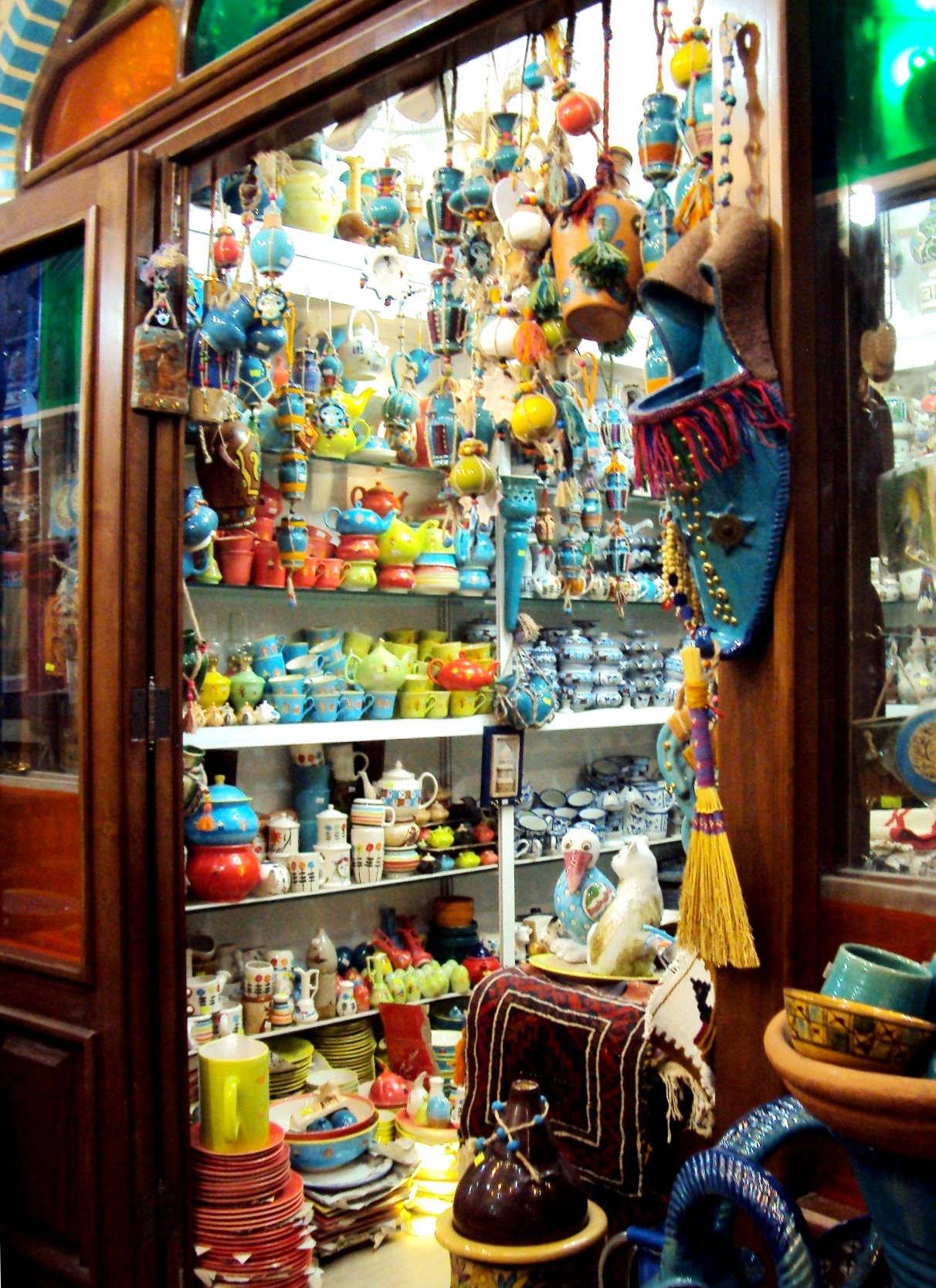 Qom's handmade products